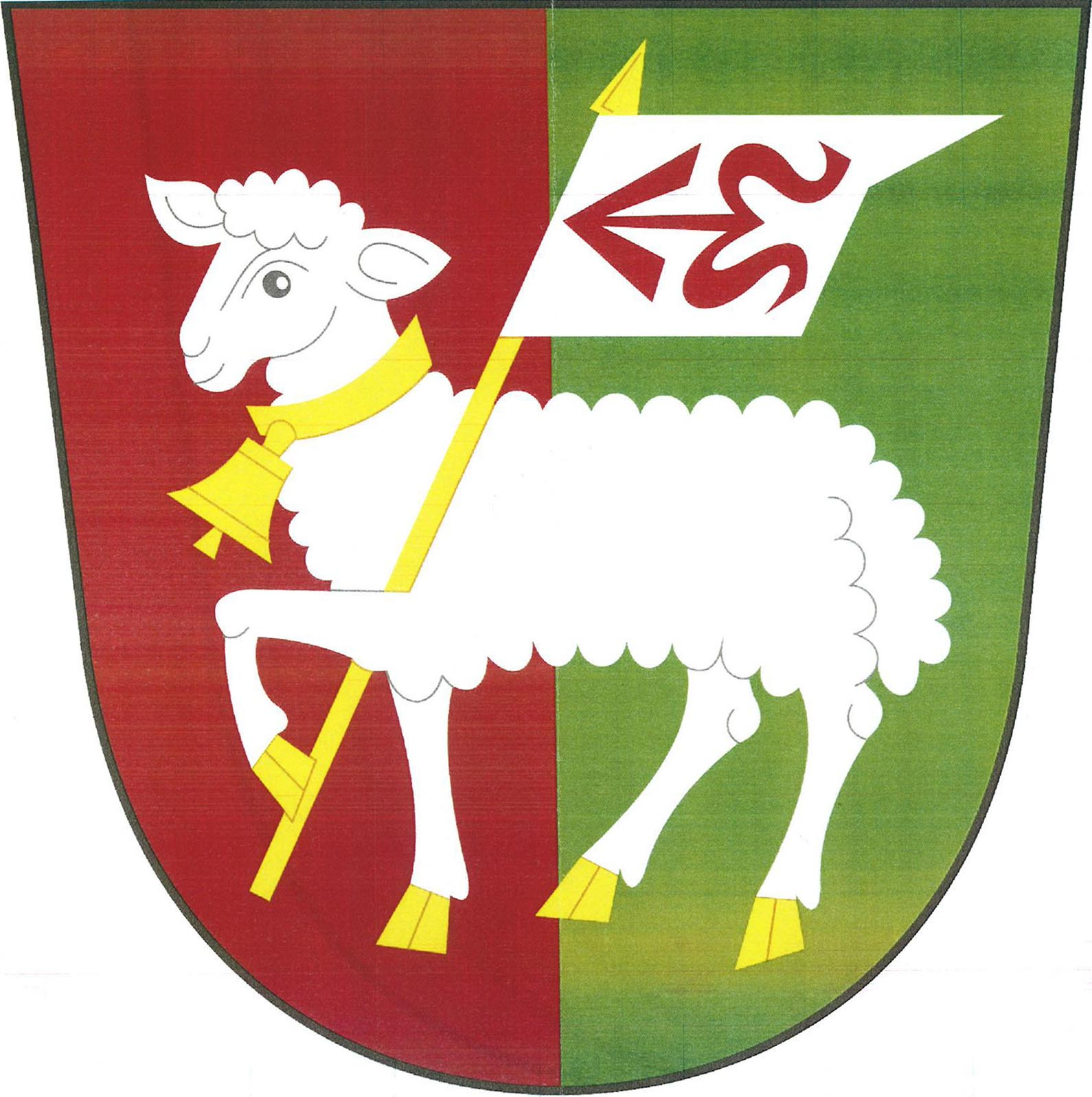 Coat of arms of Olbramovice, Olomouc District